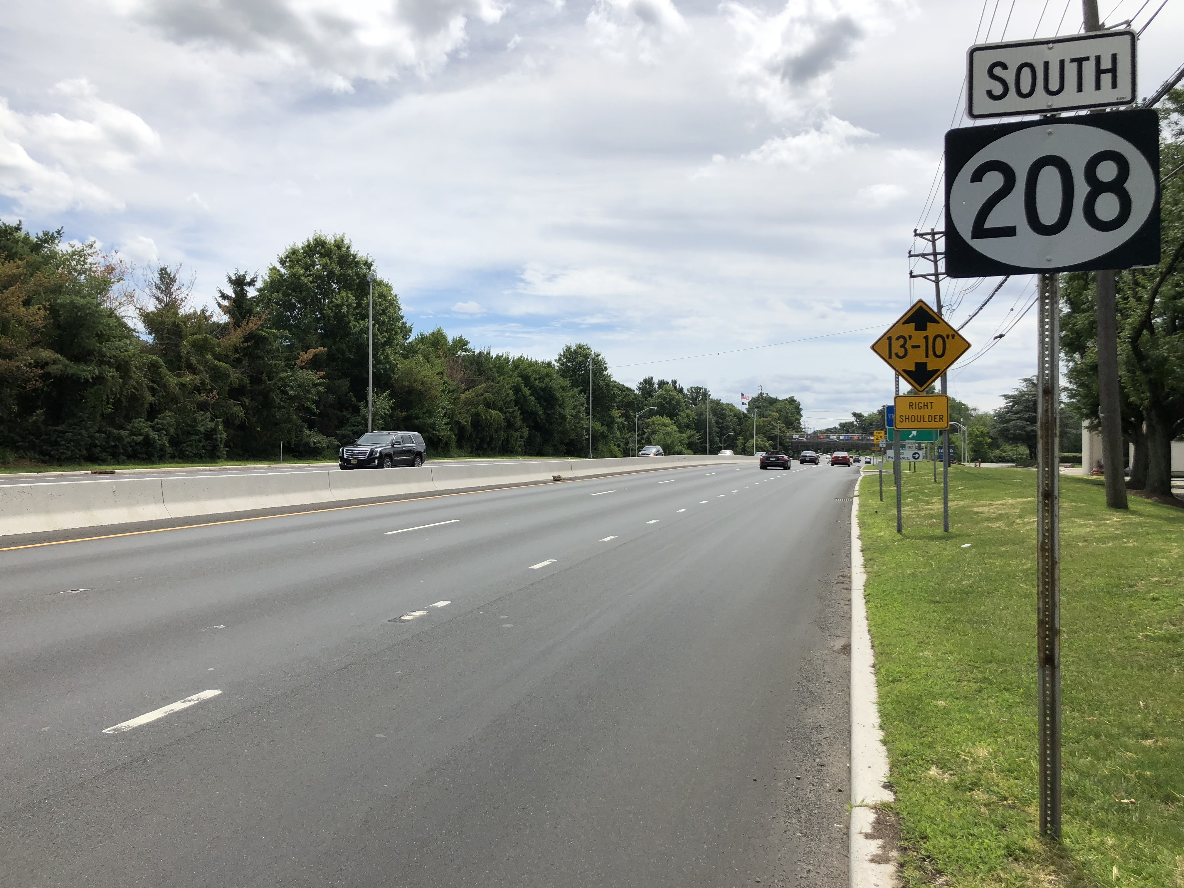 View south along New Jersey State Route 208 between Bergen County Route 507 (Maple Avenue) and Bergen County Route 76 (Fairlawn Avenue) in Fair Lawn, Bergen County, New Jersey